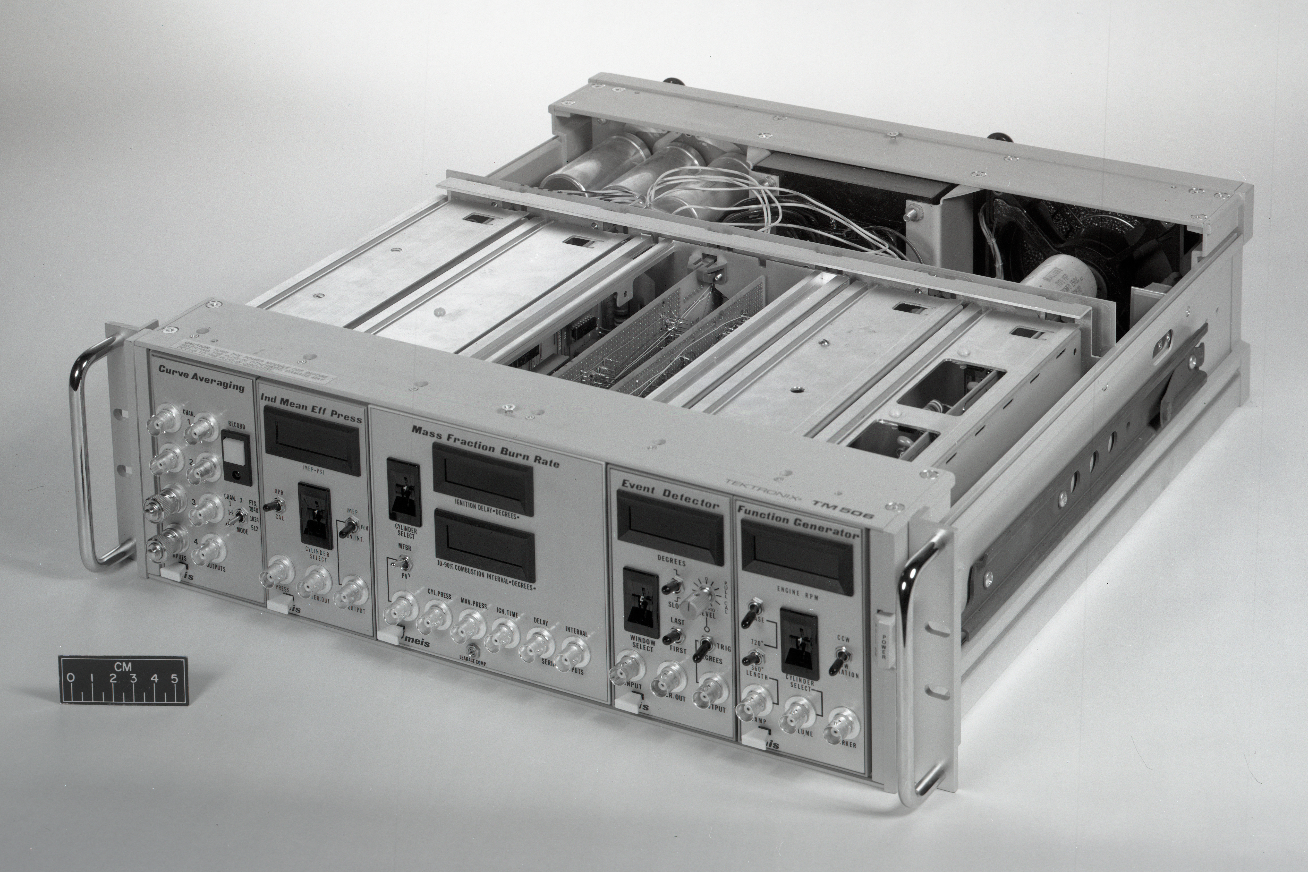 Scope and content: The original finding aid described this as: Capture Date: 2/9/1977 Photographer: DONALD HUEBLER Keywords: Larsen Scan